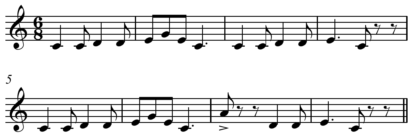 "Pop Goes the Weasel" (1855) melody